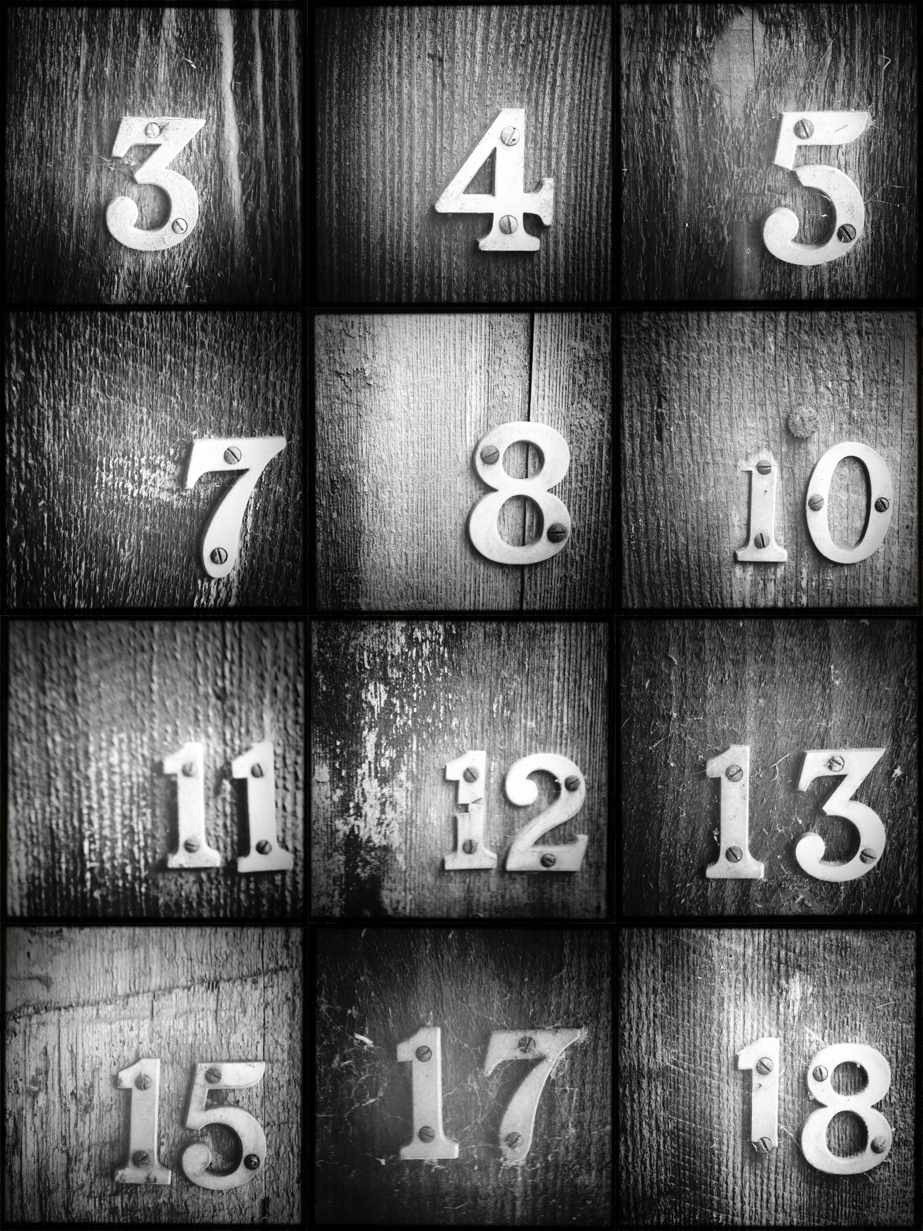 Numbers3 4 5 7 8 10 11 12 13 15 17 18